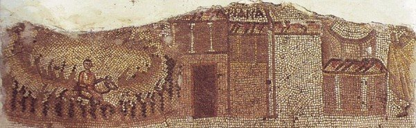 Part of the border of the Megalopsychia hunt mosaic from the latter half of the 5th century from Daphne (Yakto) that may show the Imperial Palace and Great Church of Antioch